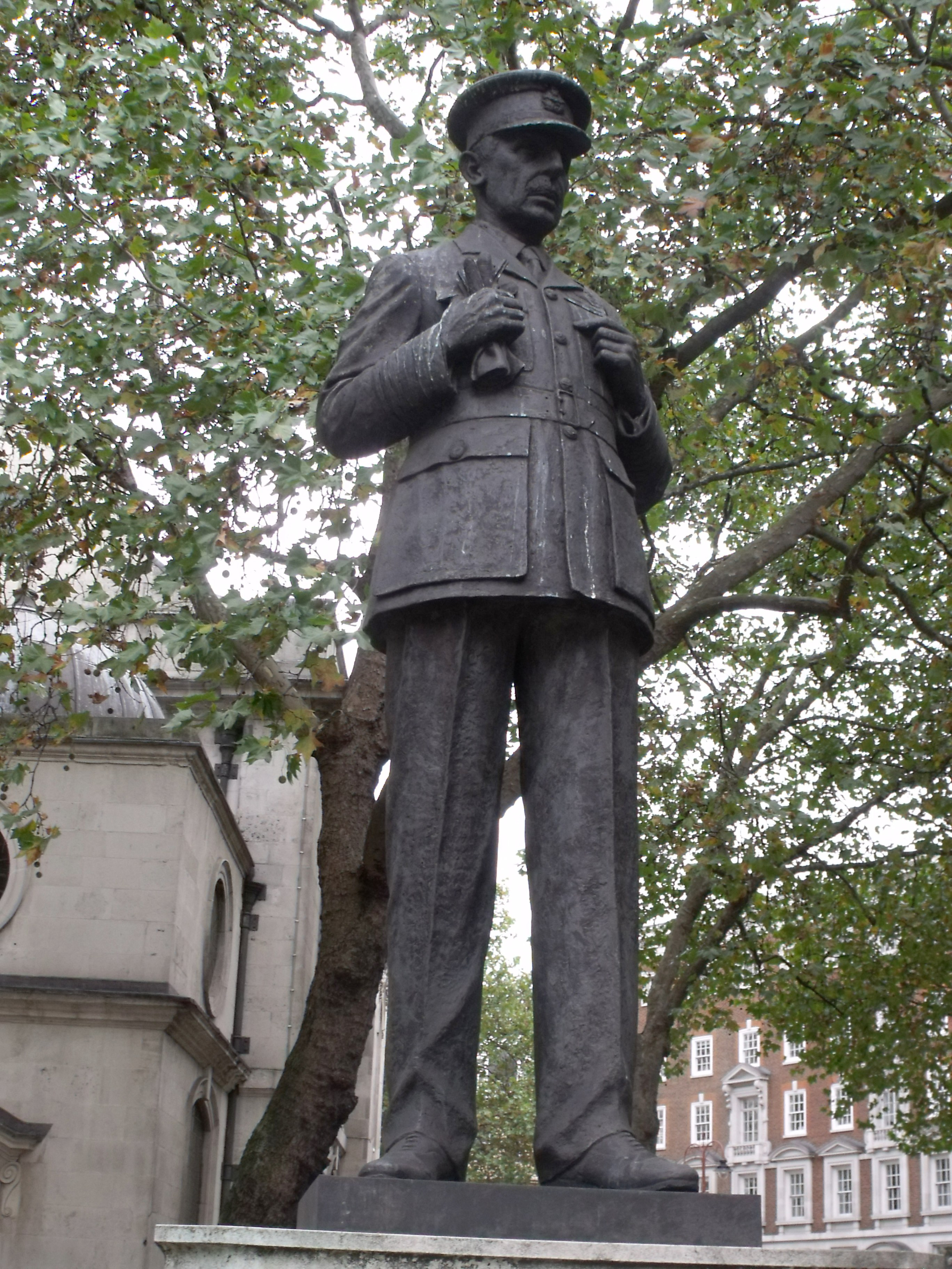 Statues at St Clement Danes at the Strand traffic island,outside the City of London. This is a statue of Air Chief Marshall Lord Downing (Hugh Downing) in the grounds of St Clement Danes. He was Baron of Bentley Priory in the County of Middlesex, Commander-in-Chief, Fight Command of the Royal Air Force from 1936 - 1940.